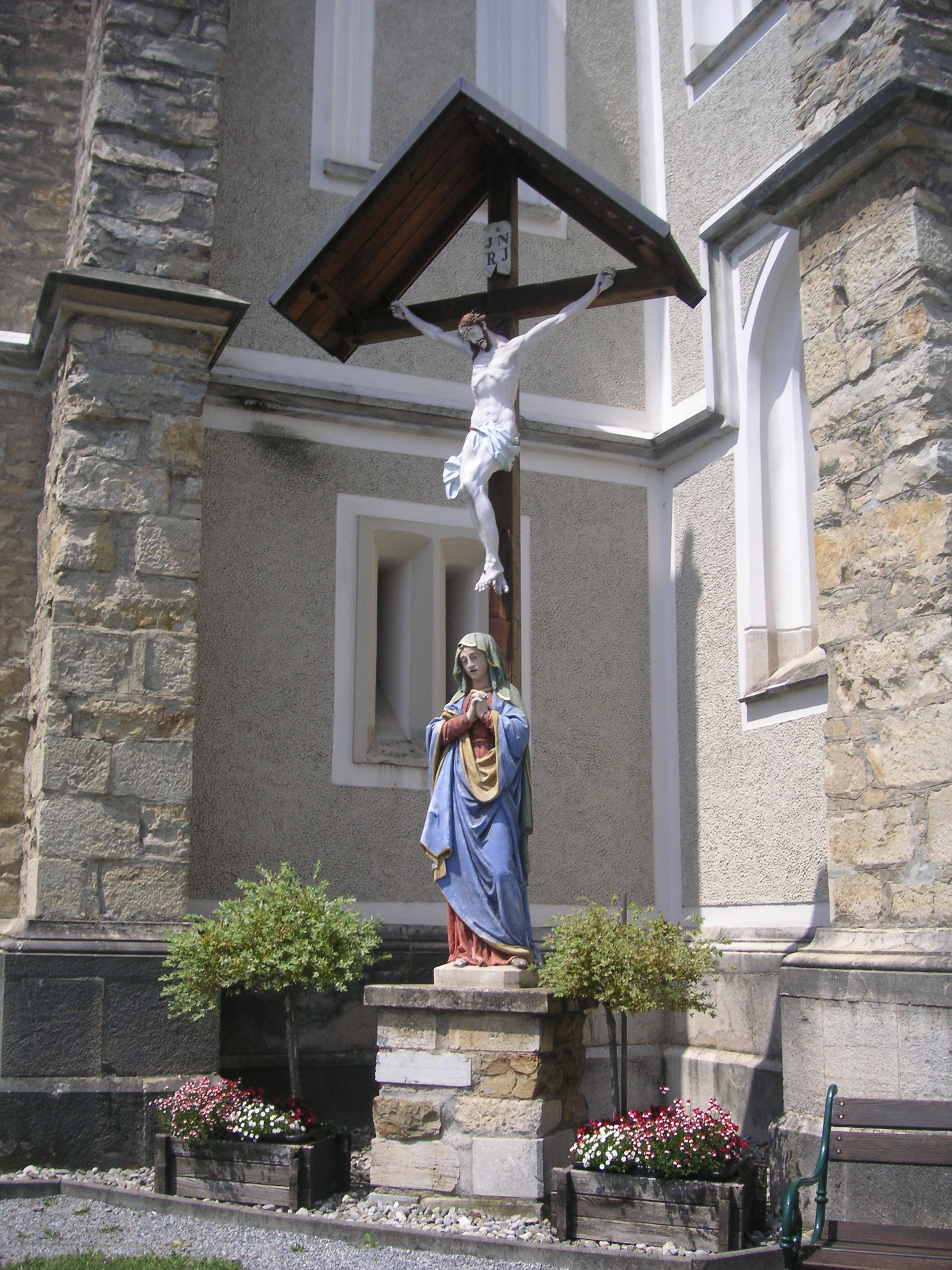 A cross in front of the church in St. Bartholomä, Styria, Austria